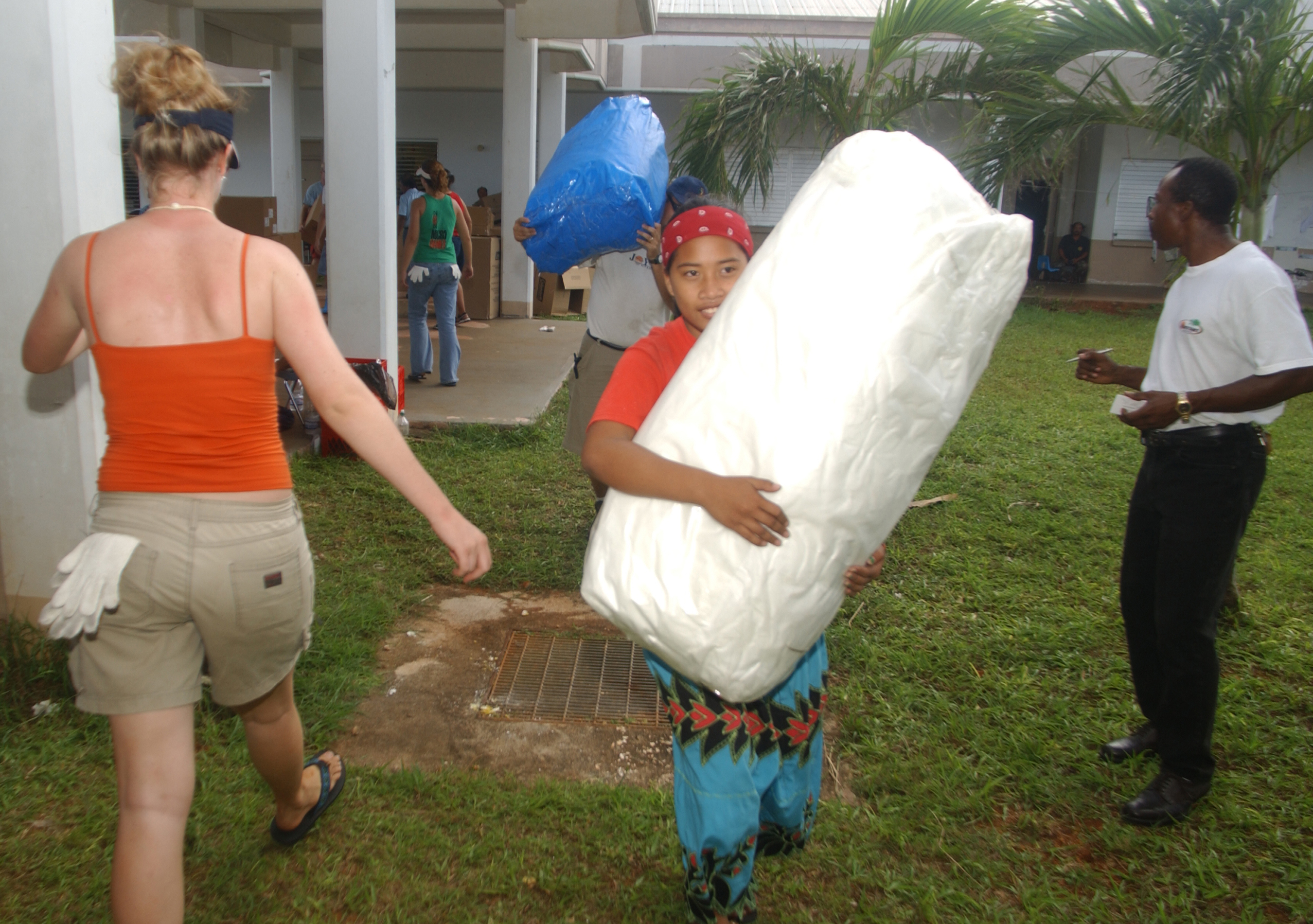 Dededo, Guam, December 26, 2002 -- Seventh Day Adventists volunteers help distribute tents to families staying at the Astumbo Elementary school shelter are distributed tents as temporary shelter due to damages to their homes from Supertyphoon Pongsona. Photo by Andrea Booher/FEMA News Photo